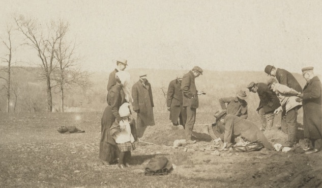 "Professor Newton Horace Winchell excavating the old Indian village at Cambria Township, Blue Earth County, Minnesota" The Cambria site (21BE2) is located above the Minnesota River 25 km northwest of Mankato. The site was initially reported and mapped by Newton Winchell in the early 20th century. The site was later excavated by W. B. Nickerson for the Minnesota Historical Society in 1913 and 1916."